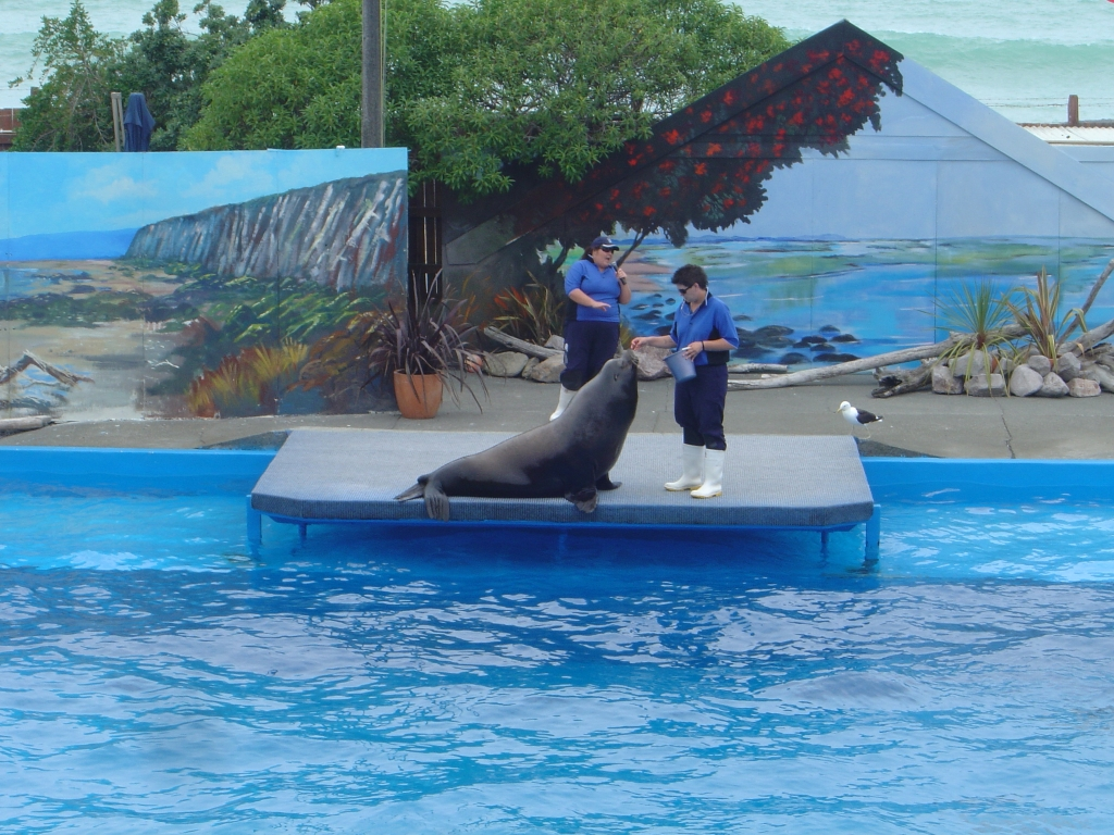 Photo of male californian sea lion at Marineland, Napier